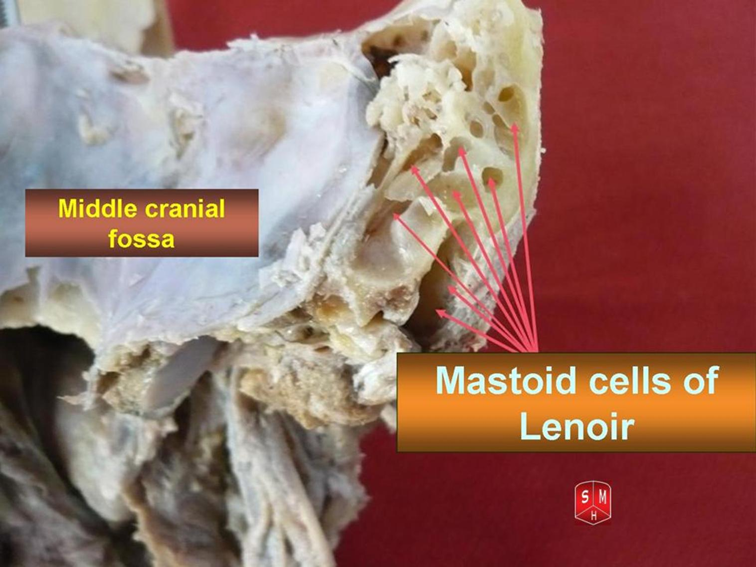 Mastoid cells